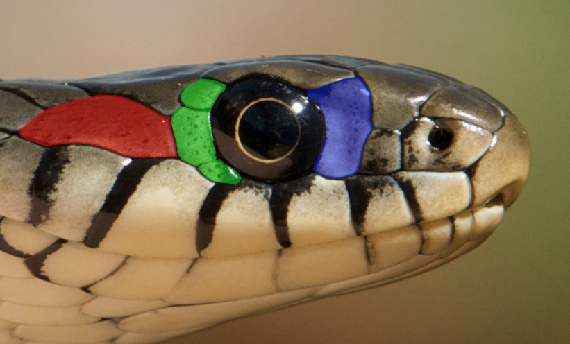 Head of a grass snake Natrix natrix with artificially coloured scales (red: temporal, green: post ocular, blue: preocular).